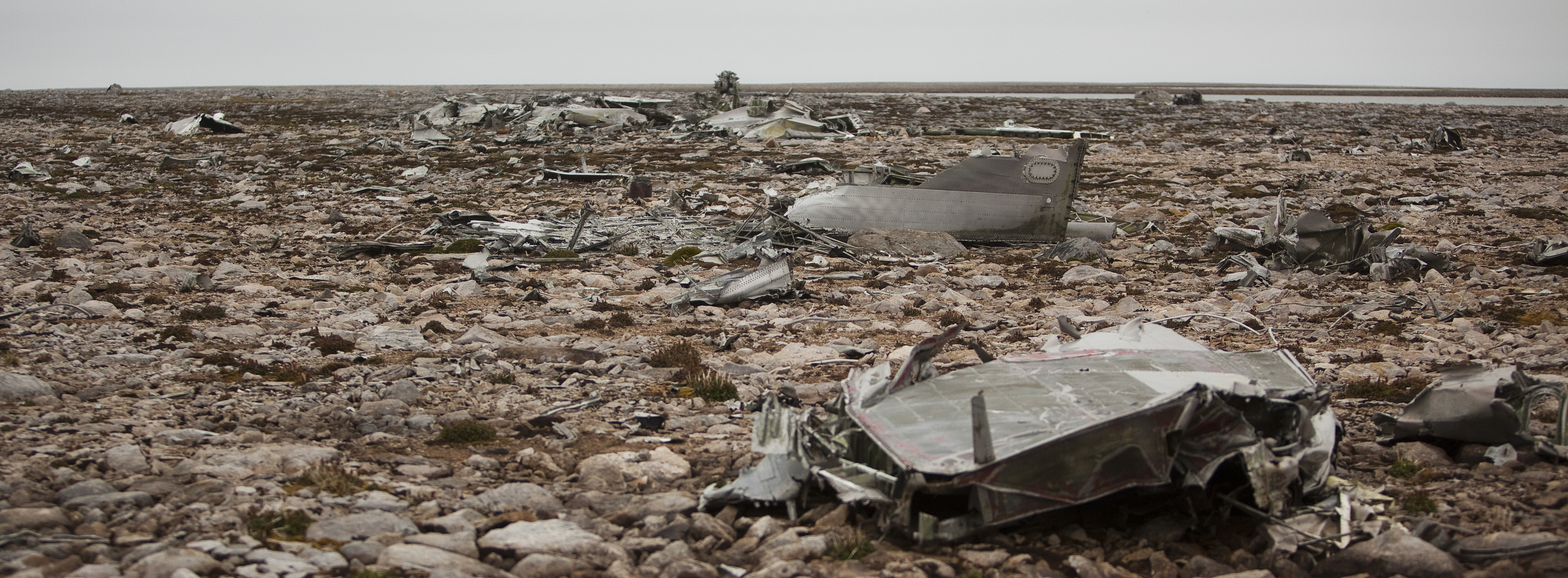 Bear Island accident was an aircraft accident that hit the Air Force on 28 March 1954. One of the Air Force Catalina flying boats from the 333 Squadron with the characteristics of KK-N (formerly LN-OAP from Vingtor Airways) had the mission to drop mail bags to the meteorological stations at Bear Island, Hopen and mining communities in Longyearbyen and Ny-Ålesund on Spitsbergen. Photo: Per Harald Olsen